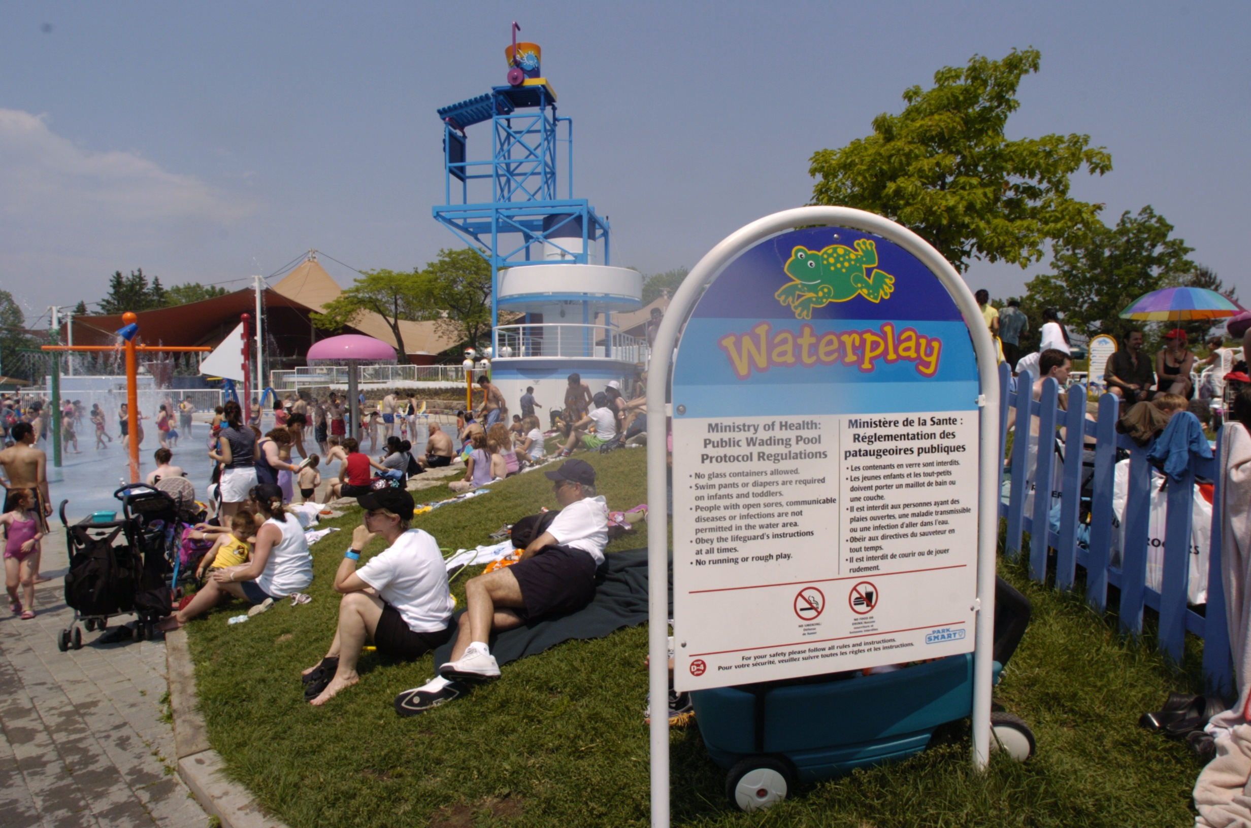 Entrance to the Waterplay portion of Soak City, which is a mini-waterpark within the larger Soak City waterpark. The giant tipping bucket is visible in the background.